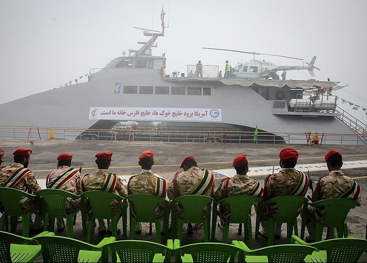 Accession ceremony of Shahid Nazeri speed vessel to Bushehr naval